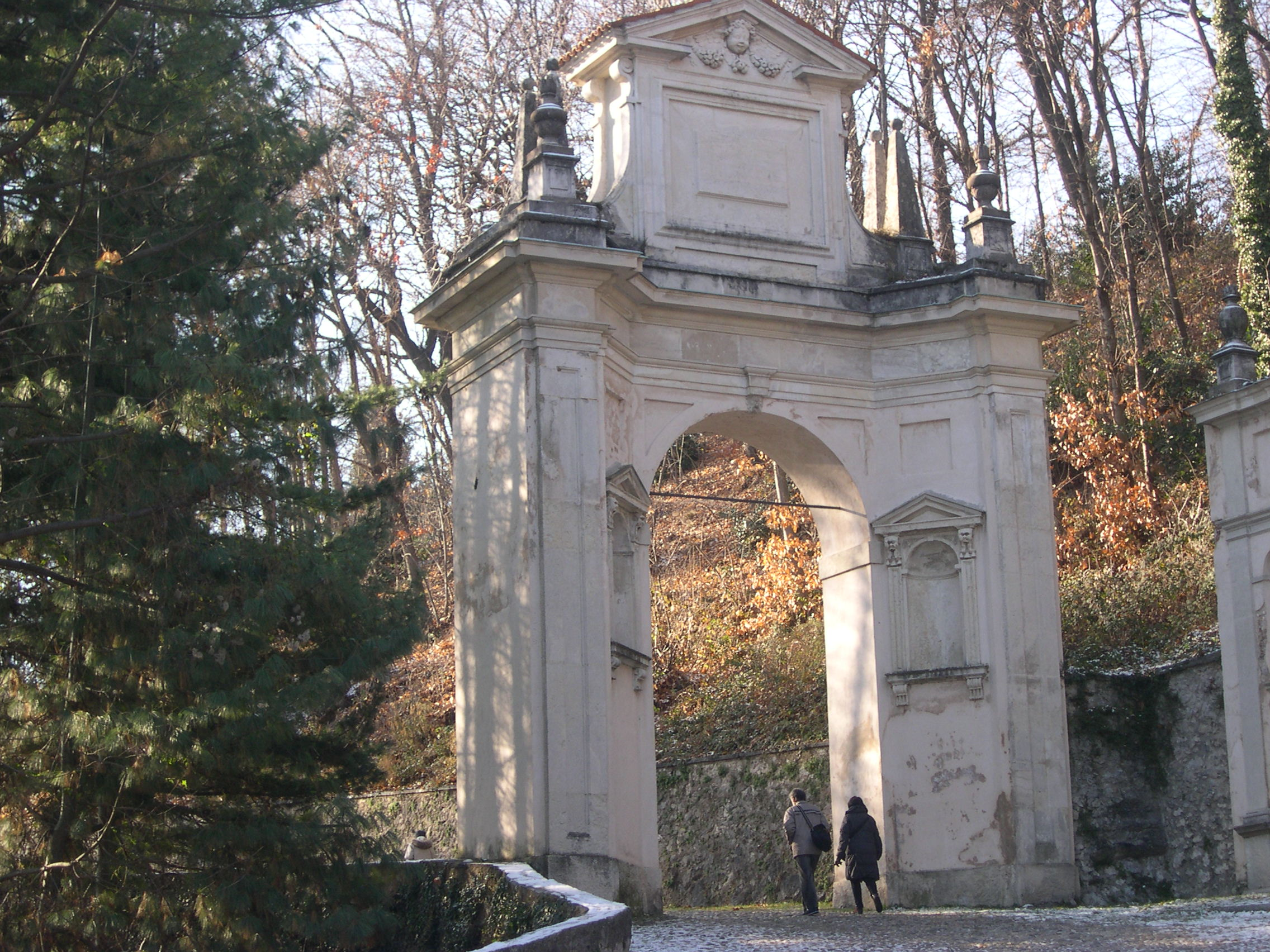 Arch of Saint Carlo Sacro Monte (Varese)